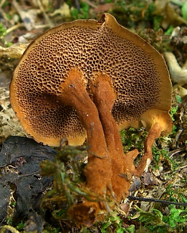 Scientific Name: Coltricia cinnamomea (Pers.) Murr. Common Name: Fairy Stool Certainty: positive (notes) Location: Central Appalachians; George Washington NF; Shenandoah Mt